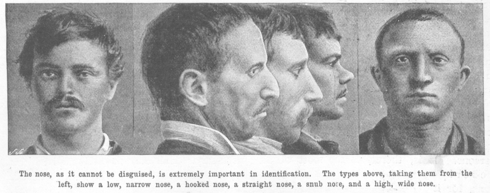 Illustration from The Speaking Portrait, an article from Pearson's Magazine, 1901, illustrating the principles of Alphonse Bertillon's anthropometry. Scanned by User:rayray.